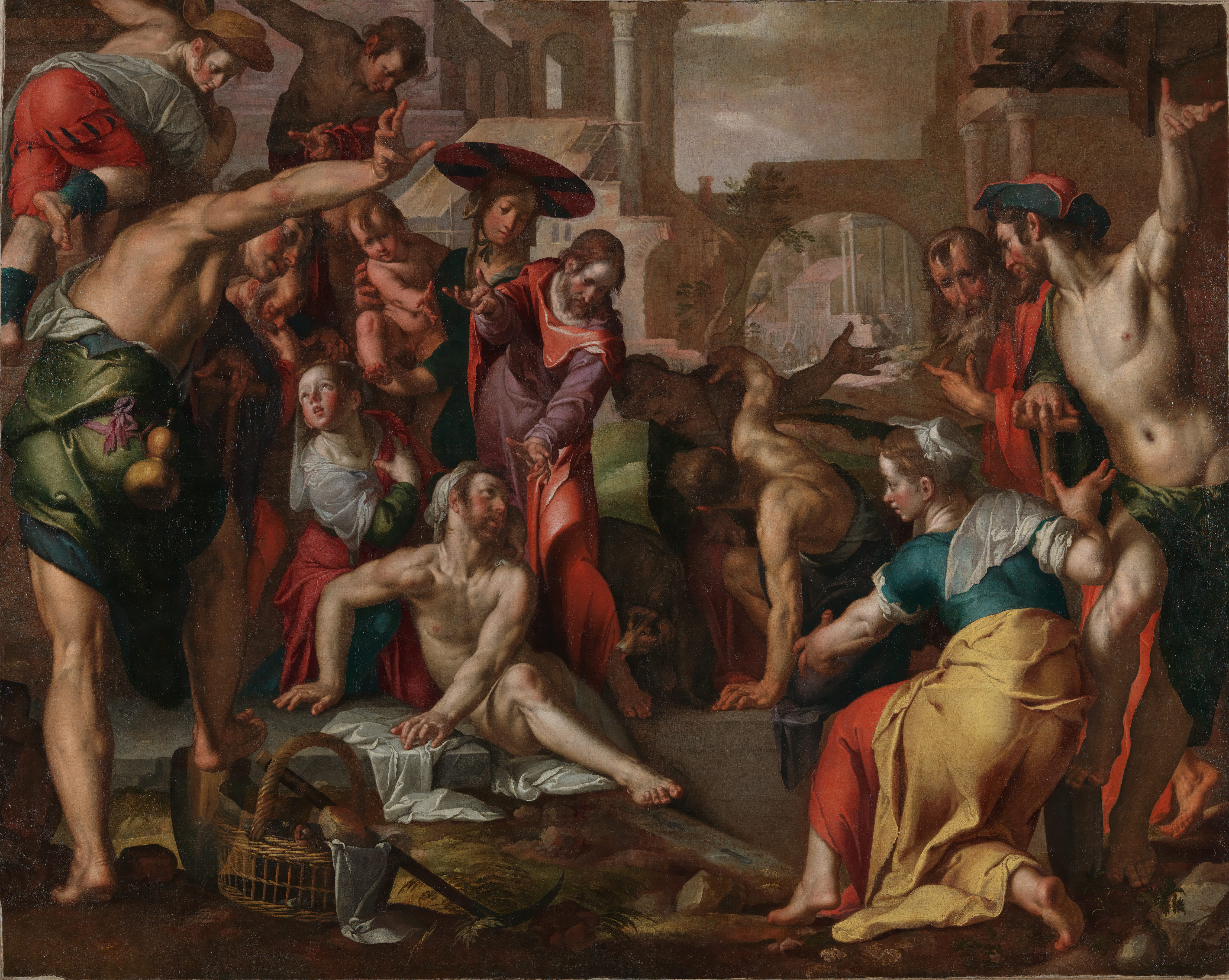 The Raising of Lazarus, c. 1605-10, Joachim Wtewael; about 1605-10, Oil on canvas, 131 x 162 cm, On loan to National Gallery (2015) from Wycombe Museum. The painting was recently restored, removing much dirt and varnish.